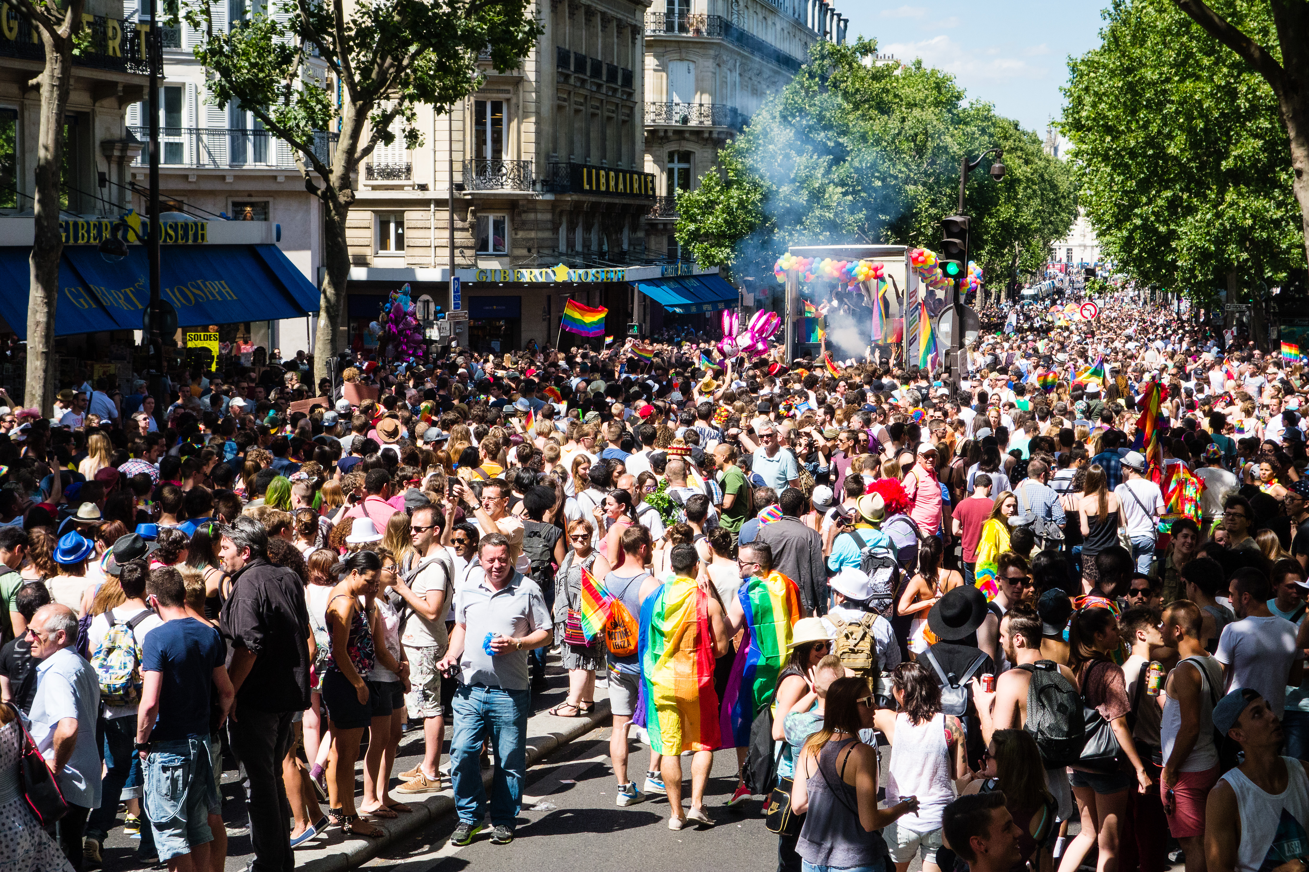 Paris Paris